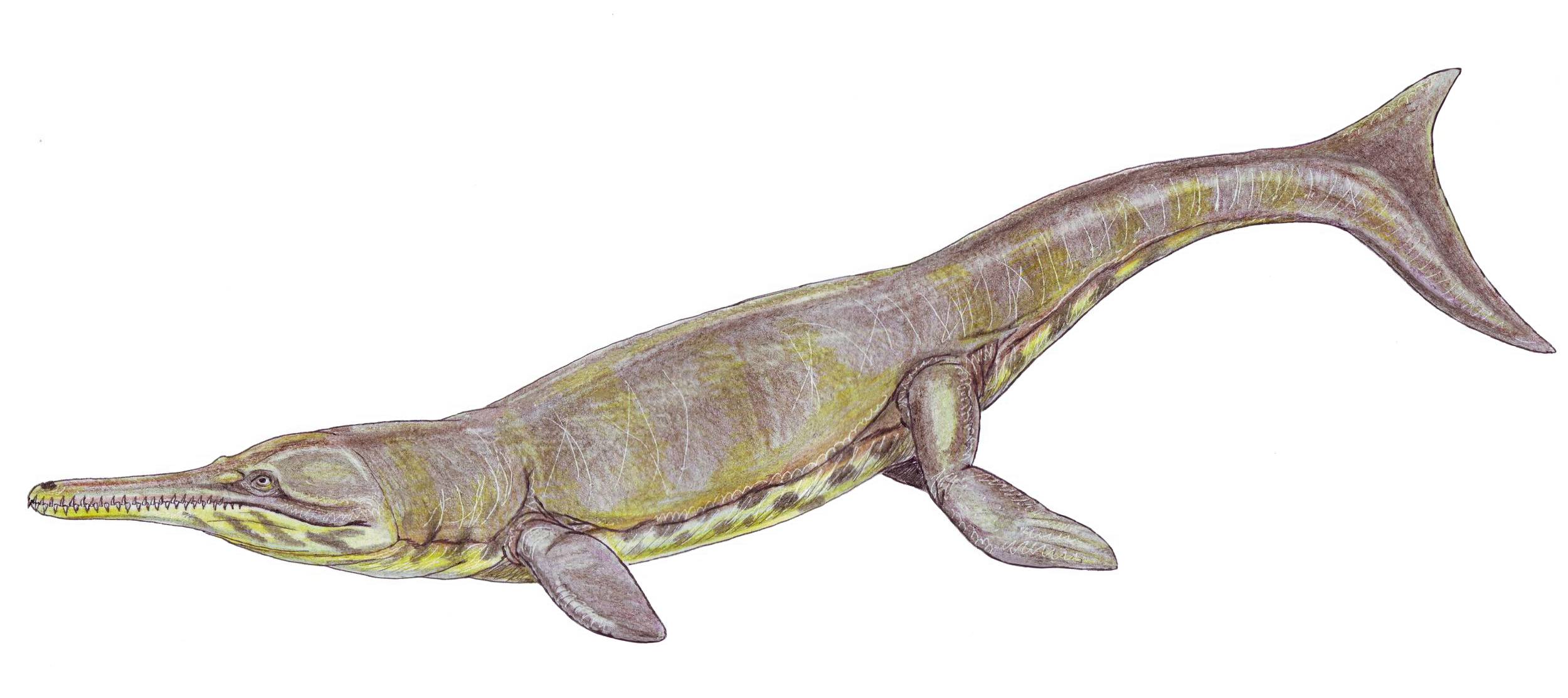 Metriorhynchus superciliosum - Late Jurassic of Europa